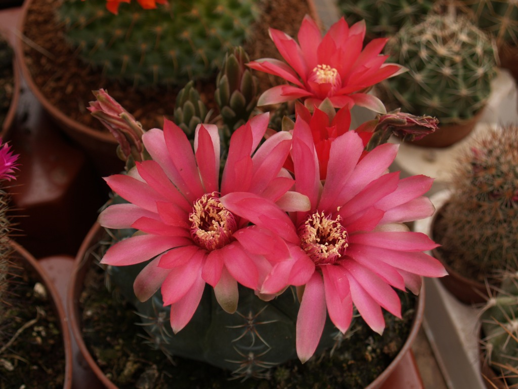 Gymnocalycium baldianum